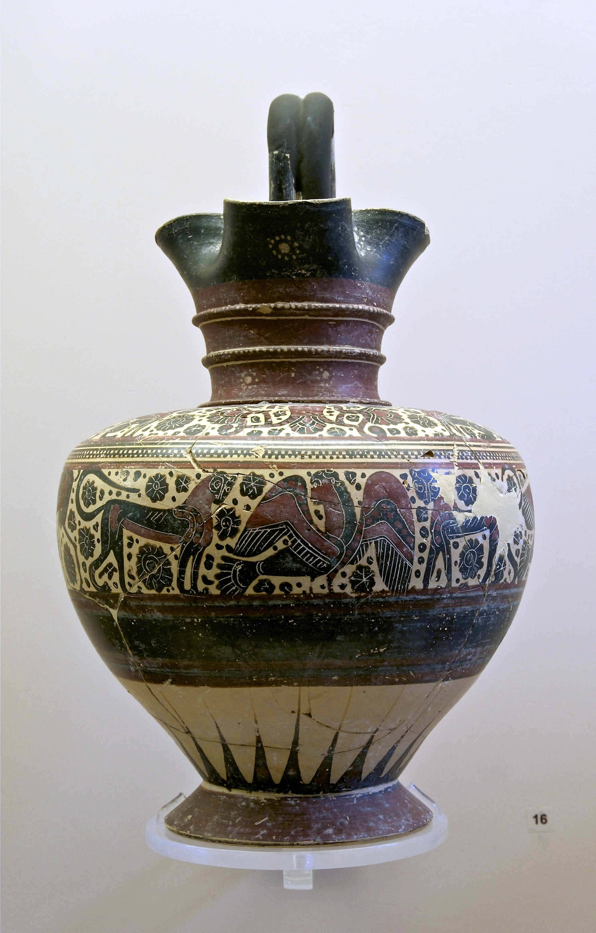 Corinthian black figure Oenochoe. Bird with human face (Harpy ?), big cats.